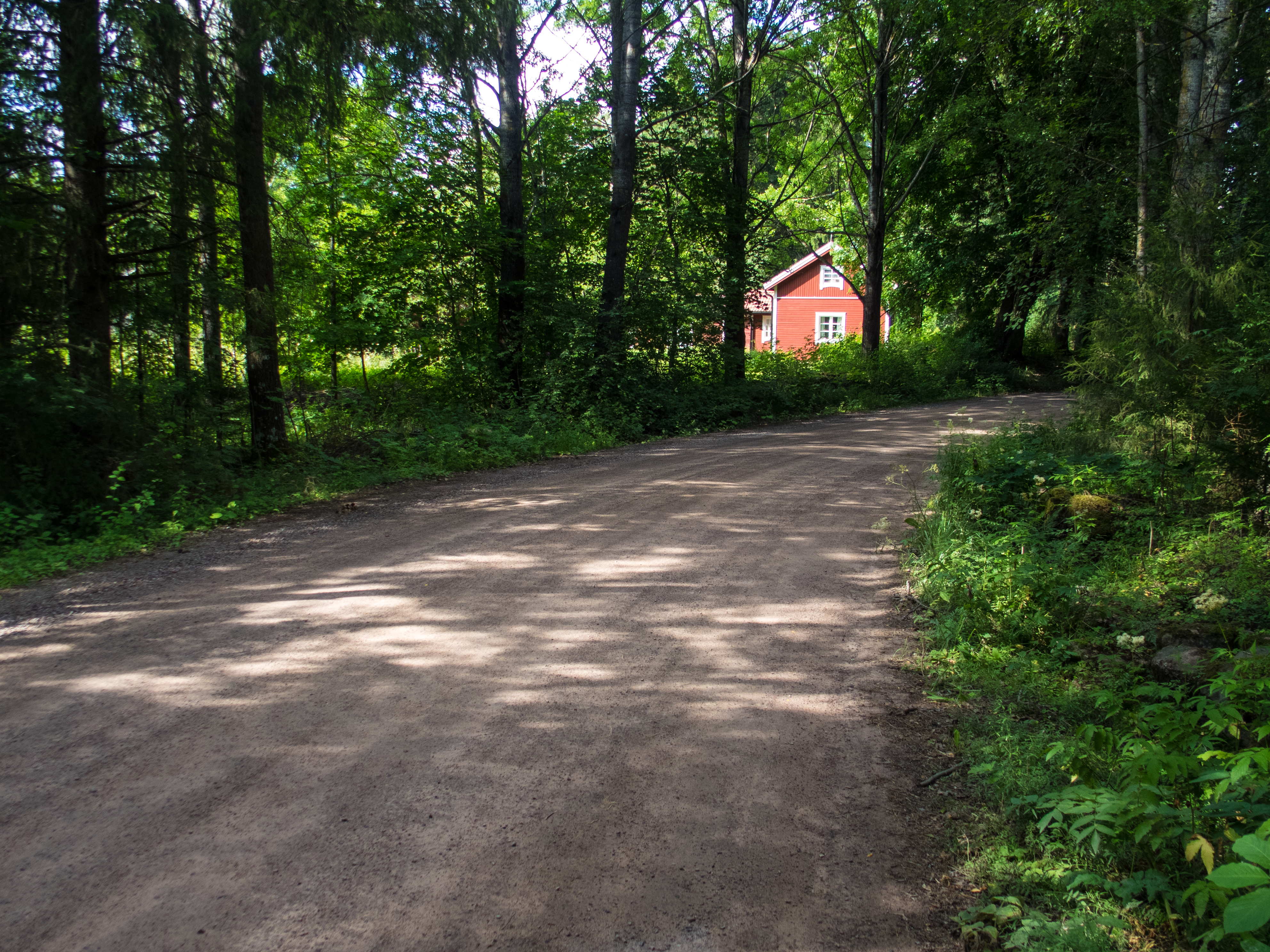 Connecting road 2141 (Vähäjärventie) in Tuiskula, Köyliö, Finland. The small gravel road runs from Kauttua, Eura, to lake Ilmiinjärvi in Köyliö.